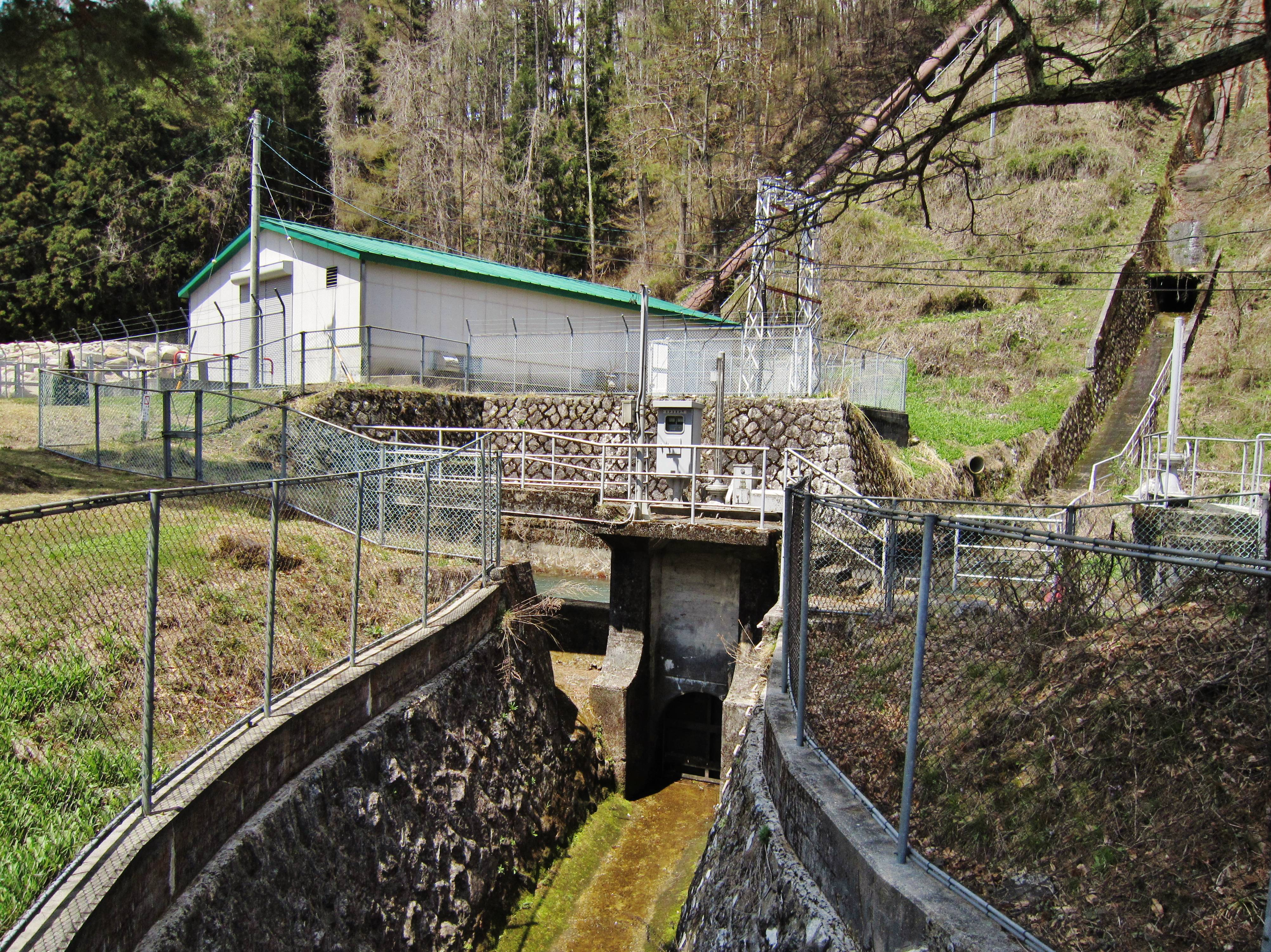 Karasugawa I power station spillway.